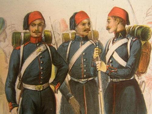 Turkish soldiers in 1854